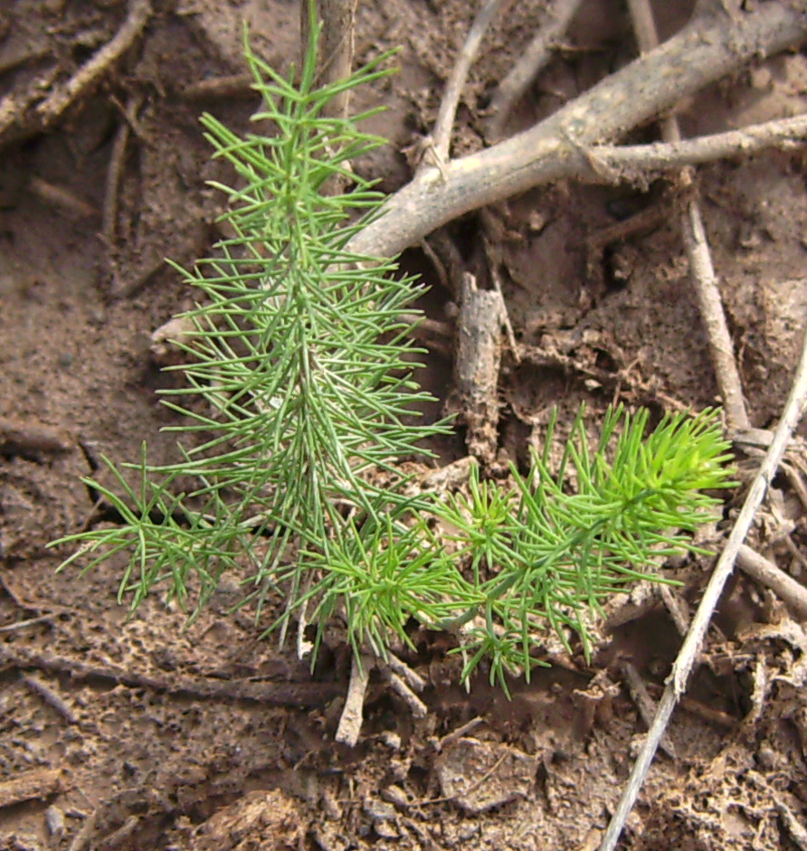 A Asparagus officinalis plant one year old, Castelltallat, Catalonia; 800 m MSL; for a discussion of the identification of this individual, please see File talk:Plàntula esparrec 26set2009.JPG